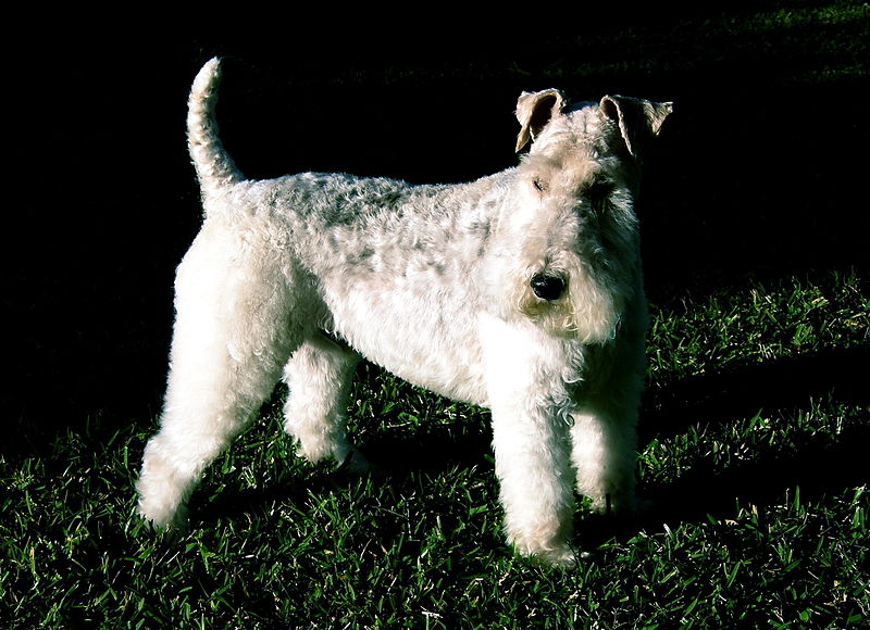 Wire haired fox terrier (Beamer)